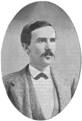 Patent attorney and inventor George Baldwin Selden (1846-1922), c. 1871